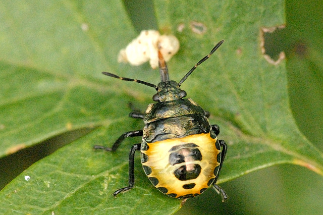 Picture taken in Commanster, Belgian High Ardennes . Species: Tritomegas bicolor nymph